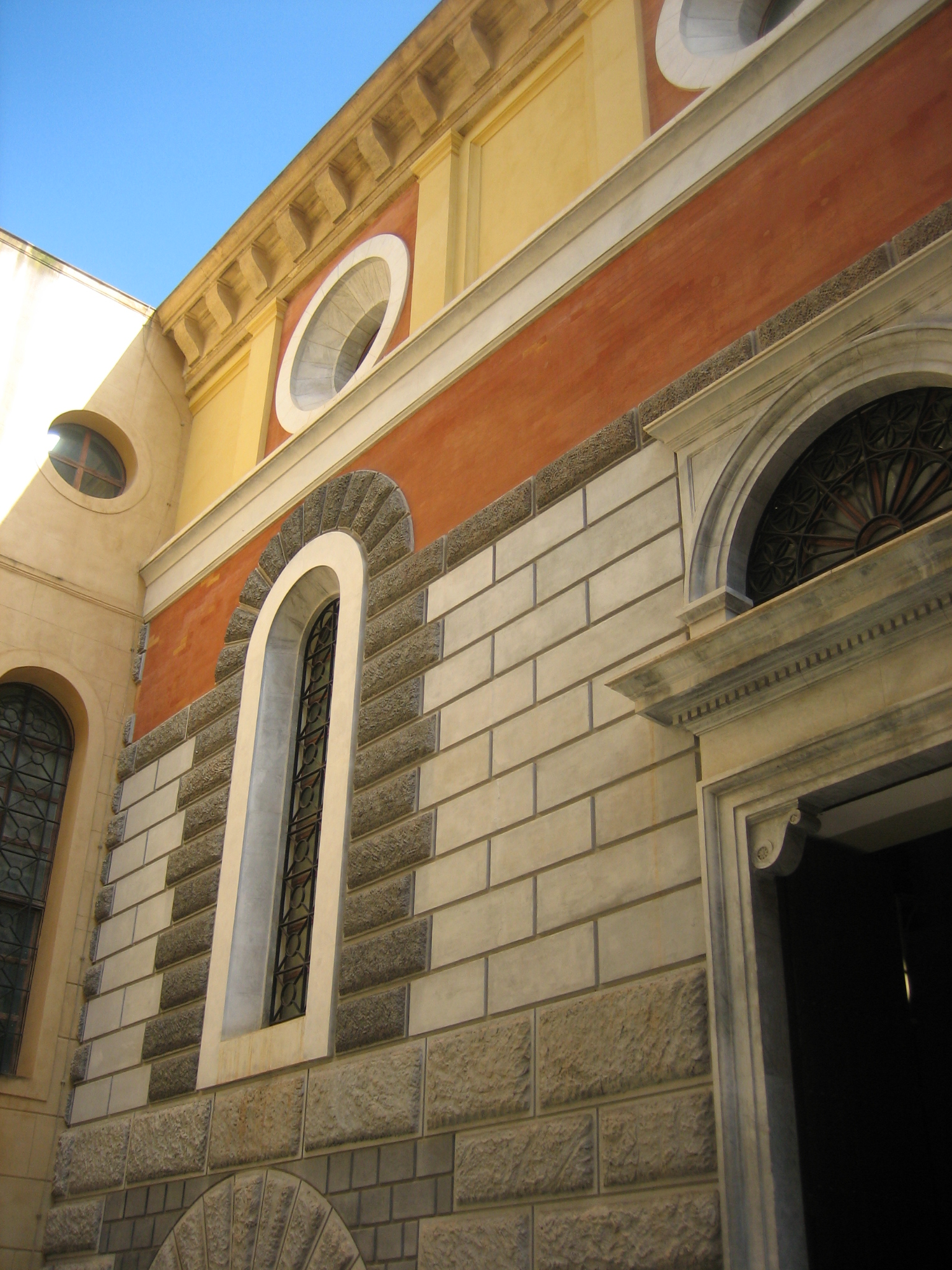 Great aula of Giuseppe Damiani Almeyda, Archivio Storico Comunale, Palermo